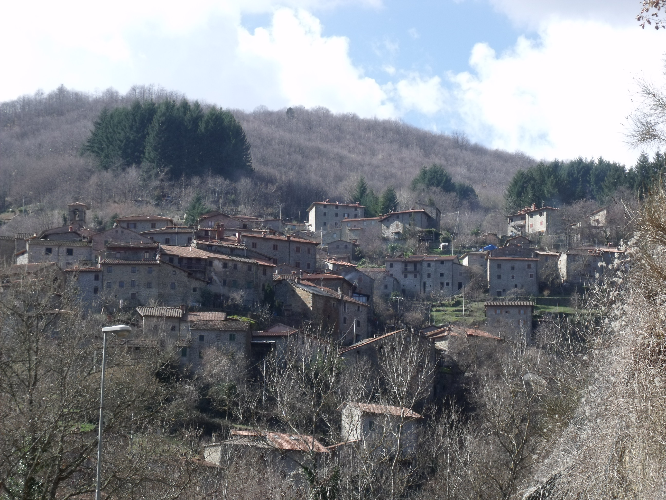 Panorama of Raggiolo, Comune Ortignano Raggiolo, Casentino, Province Arezzo, Tuscany, Italy